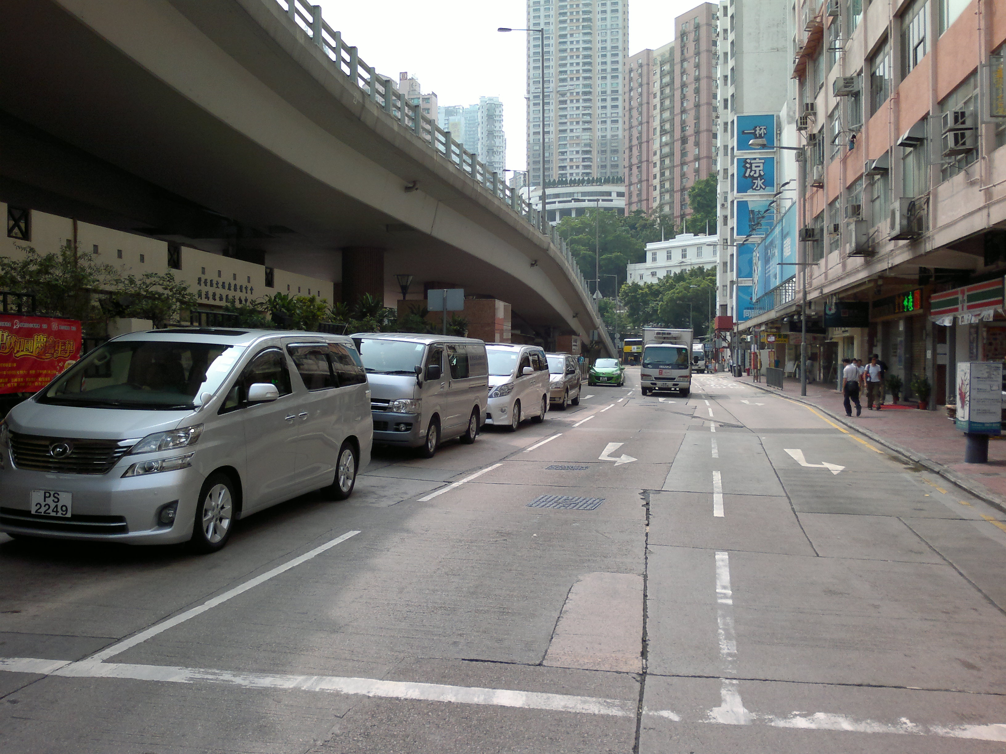 Moreton Terrace near Causeway Road